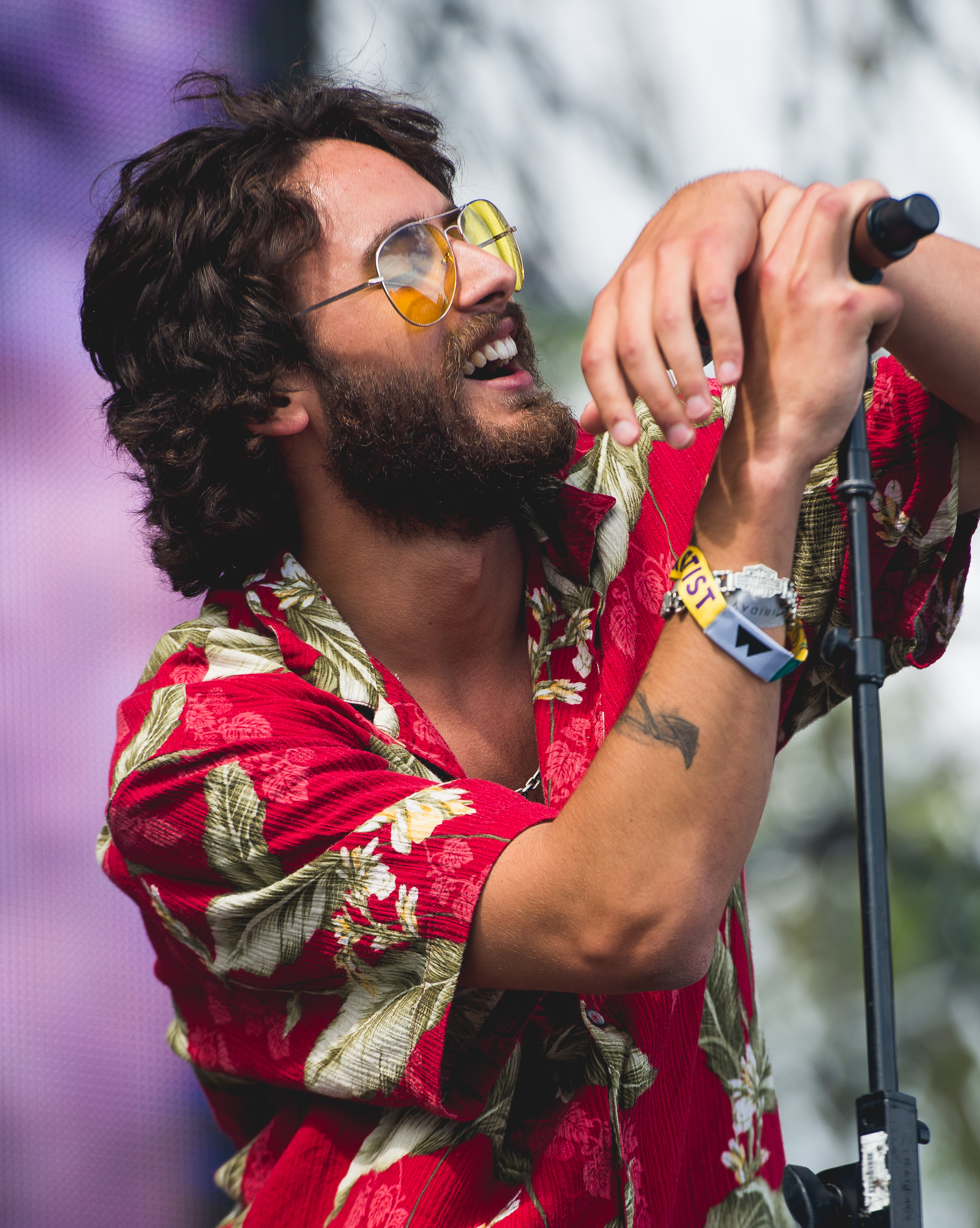 Allan Rayman photographed in Oro-Medonte, Ontario, Canada at the Wayhome Music & Arts Festival.